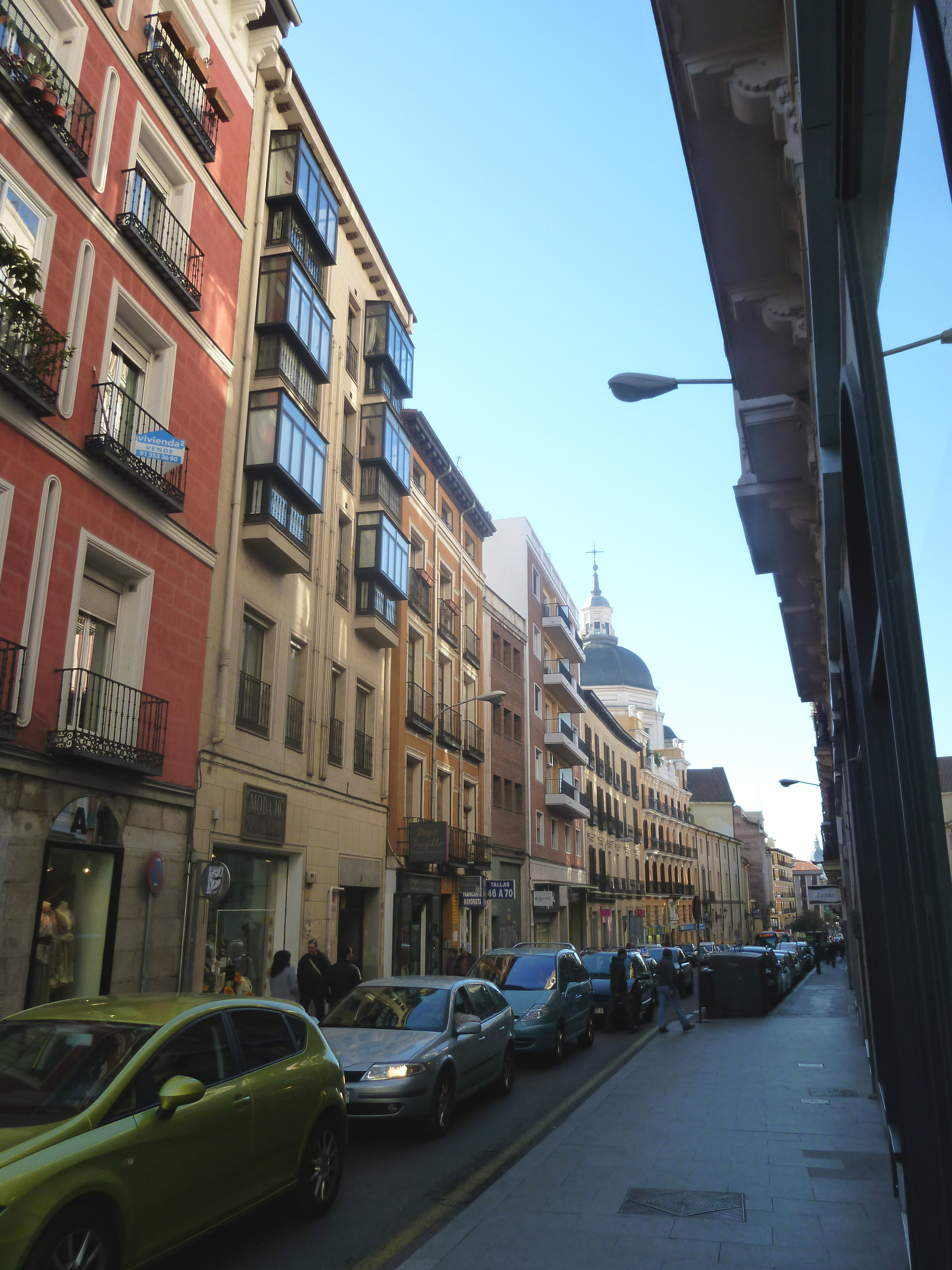 View from Calle de la Colegiata (street) in Centro district in Madrid (Spain).